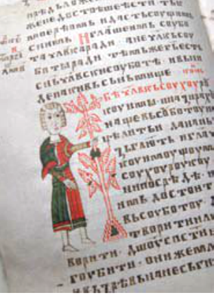 Book decoration - initials - from Divosh Gospel 14th c Srpski (latinica): Divoševo Jevanđelje napisano za bosanskog plemića Divoša Tihoradića u XIV vijeku (nađeno 1960. godine u crkvi sv. Nikole - selo Podvrh, Bijelo Polje).